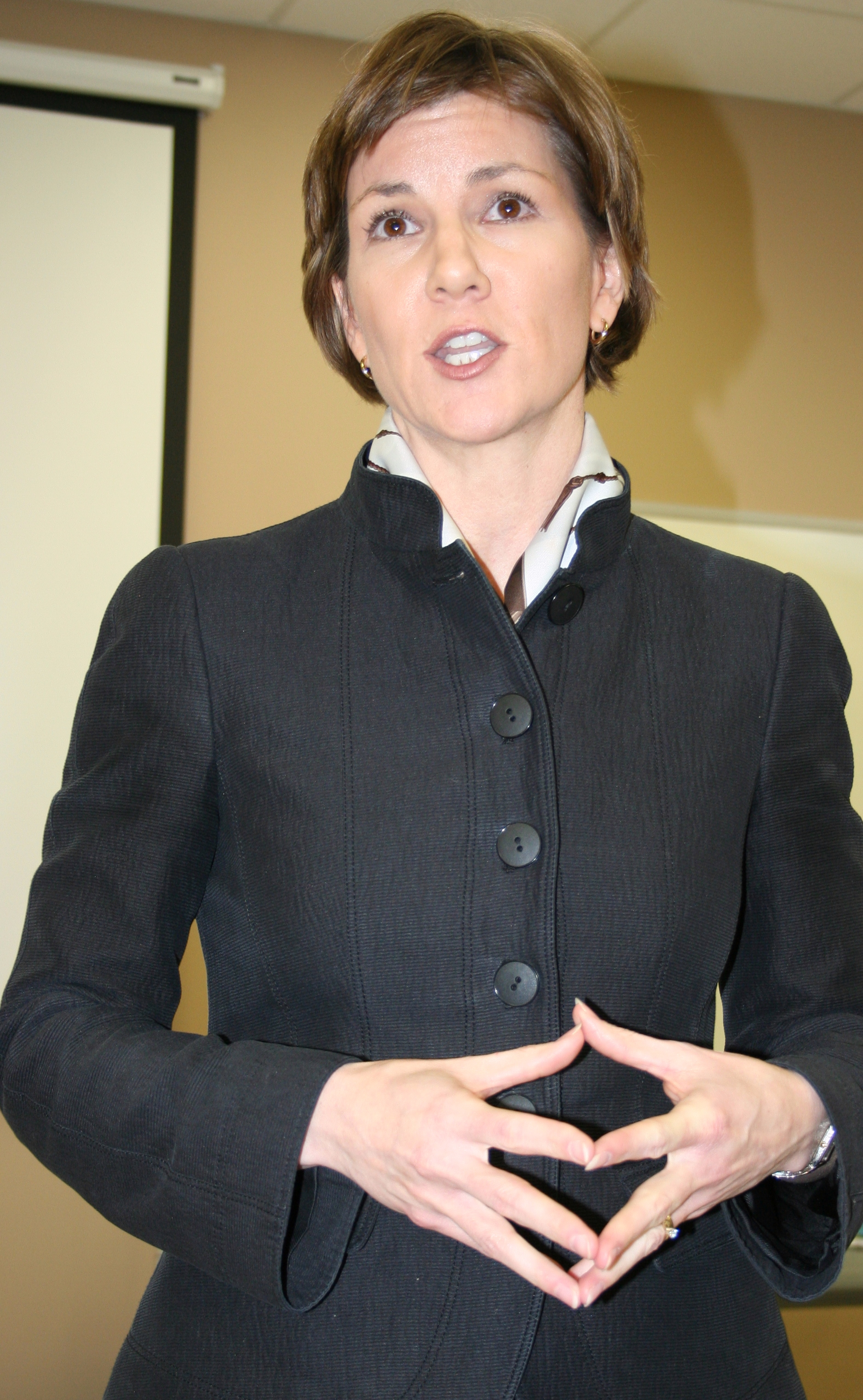 Minnesota Attorney General Lori Swanson speaking in Rochester, Minnesota.